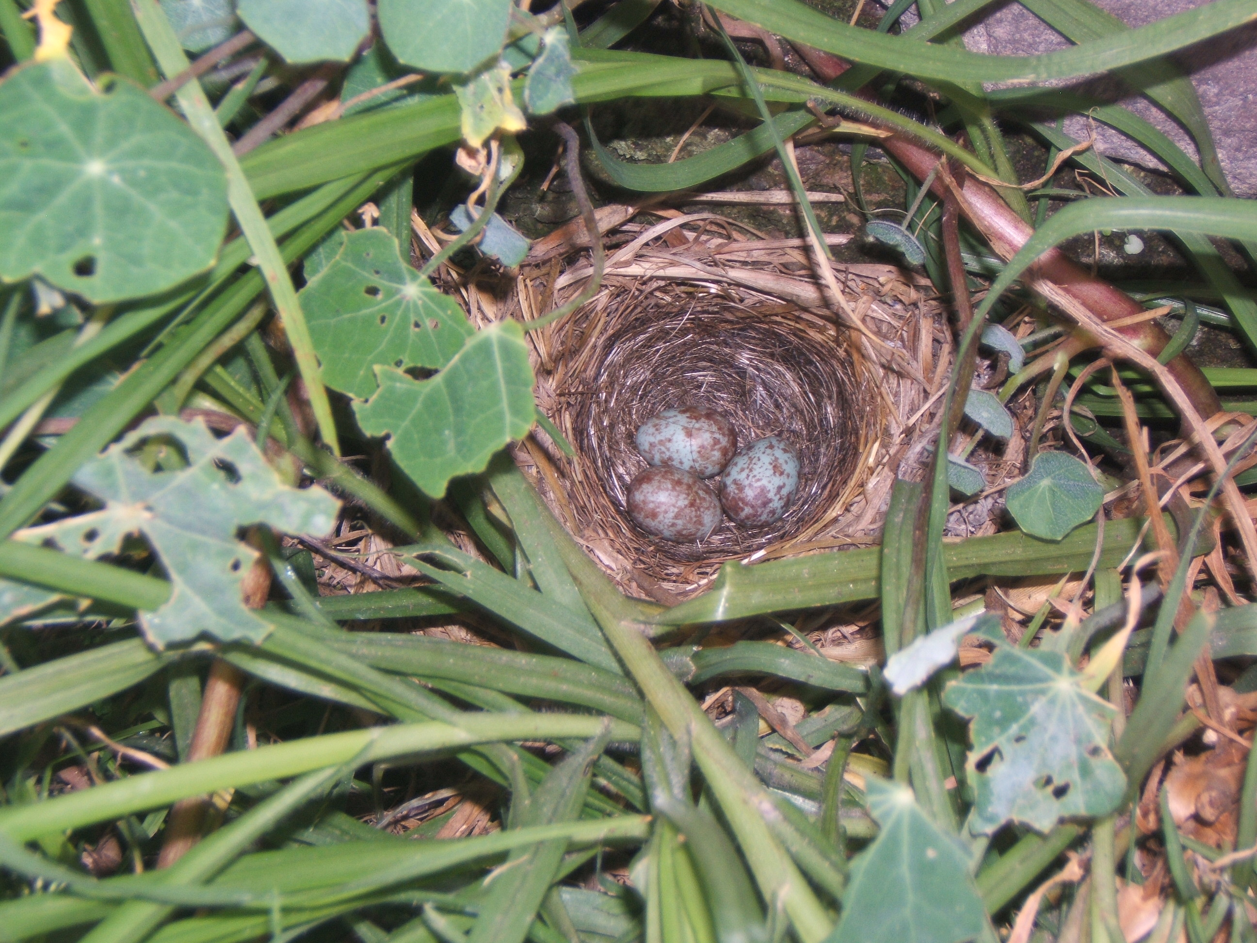 A nest with eggs in Quito, Ecuador